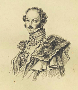 Bodisko, Nikolay Andeyevich (1756-1815).